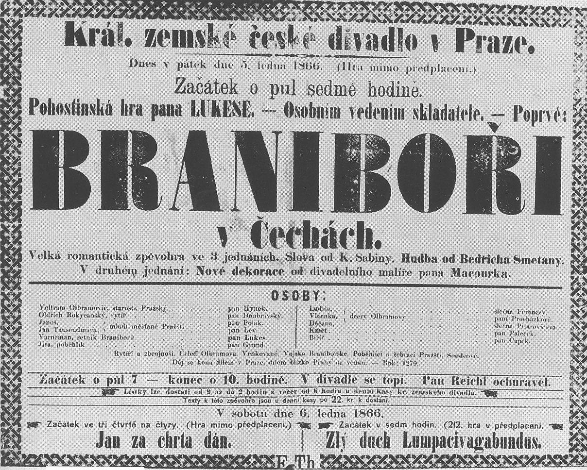 Theater poster for the world premiere of Smetana's The Brandenburgers in Bohemia (1866)